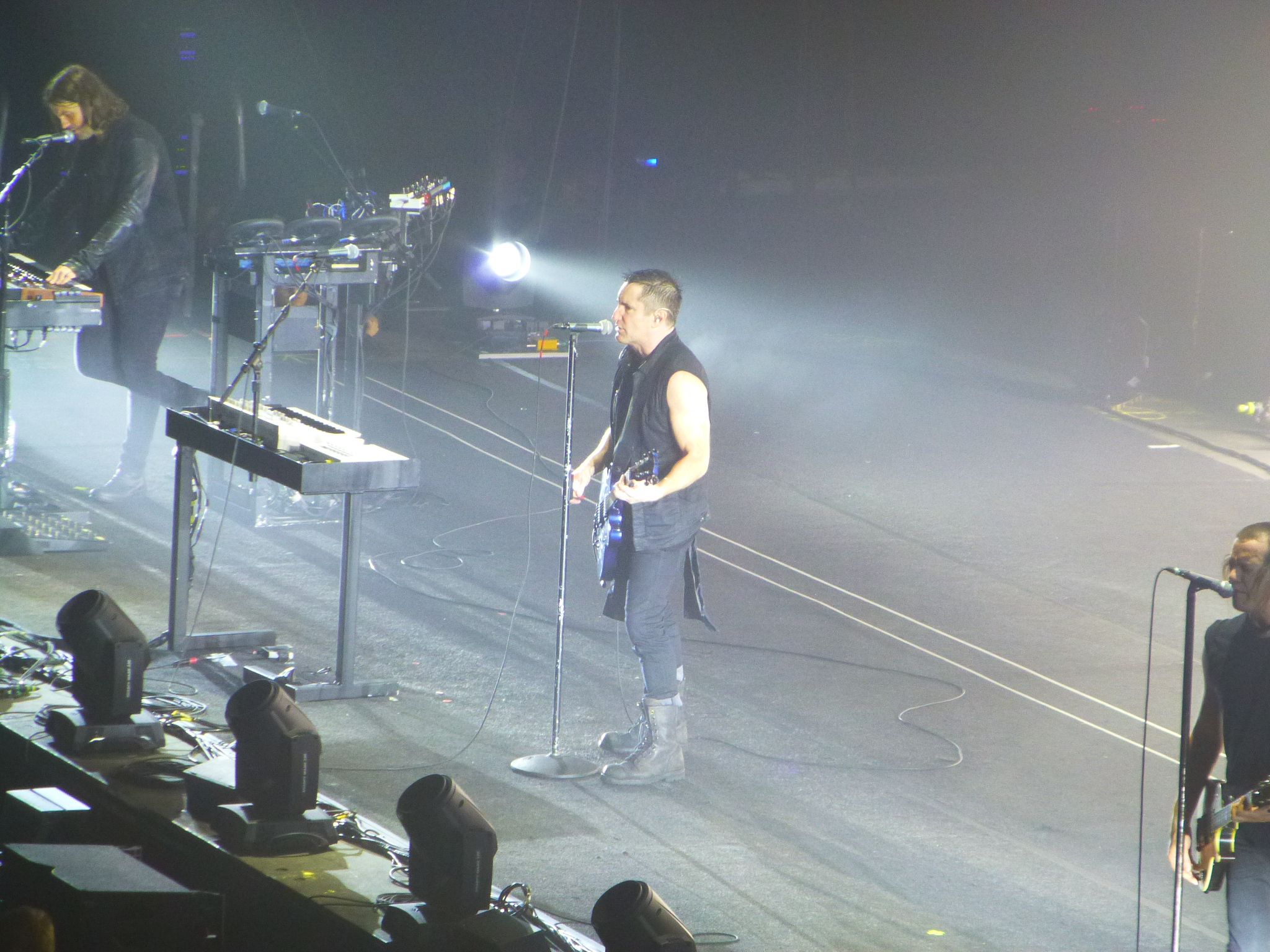 Nine Inch Nails (Trent Reznor, centre), live in Manchester in May, 2014.